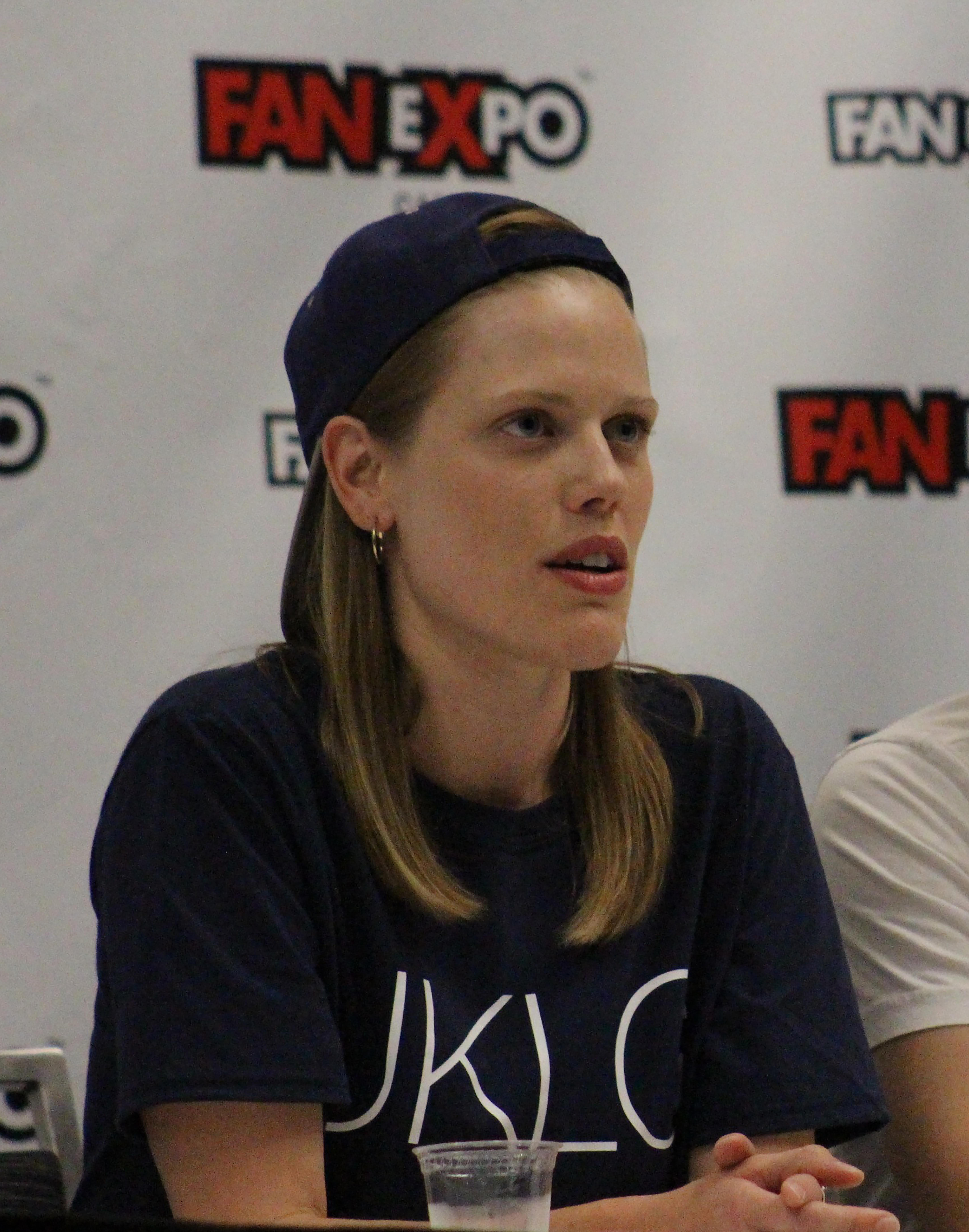 Kelly McCormack at FanExpo 2018